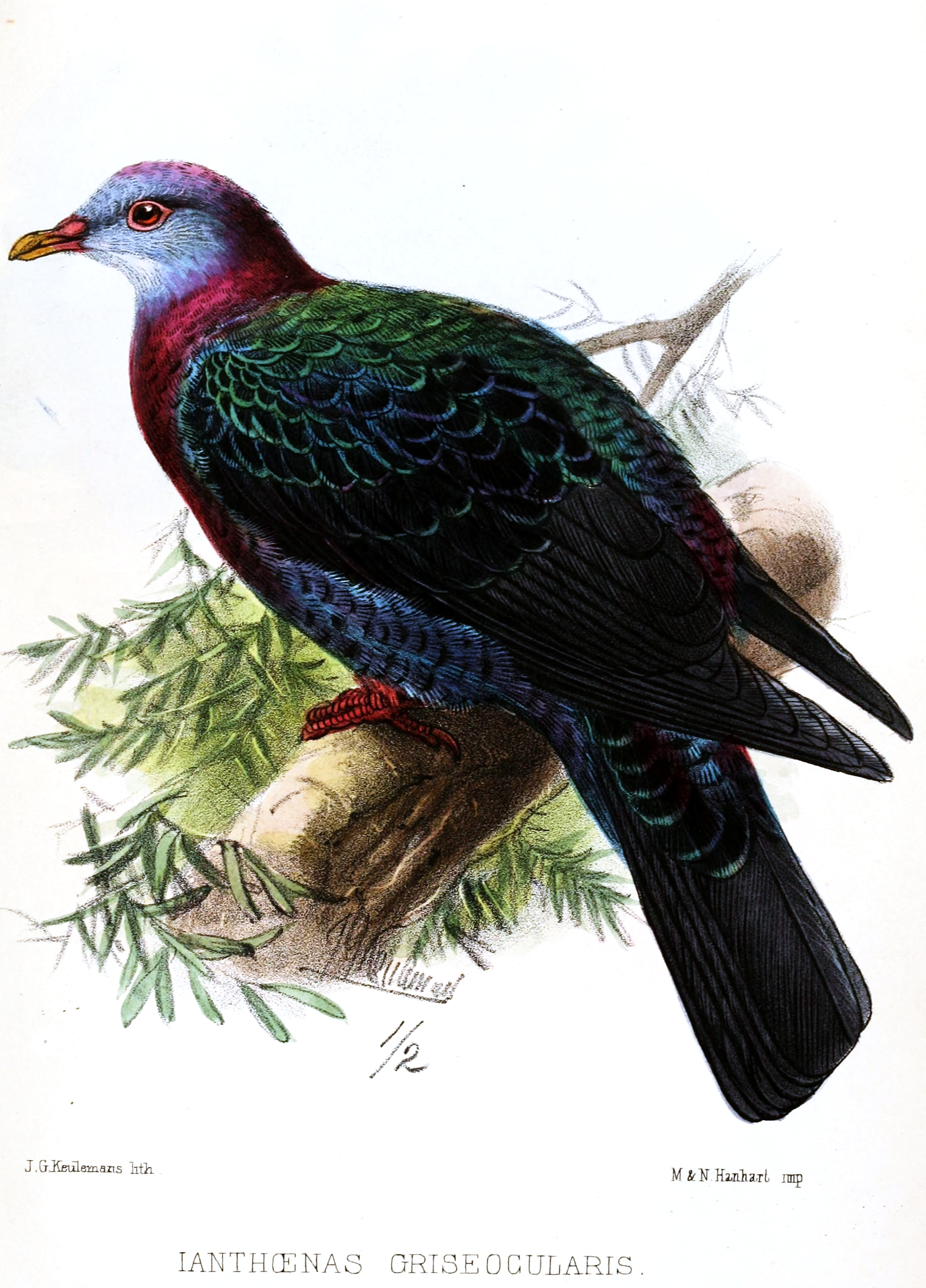 « Ianthoenas griseogularis » = Columba vitiensis griseogularis (Subspecies of Metallic Pigeon)